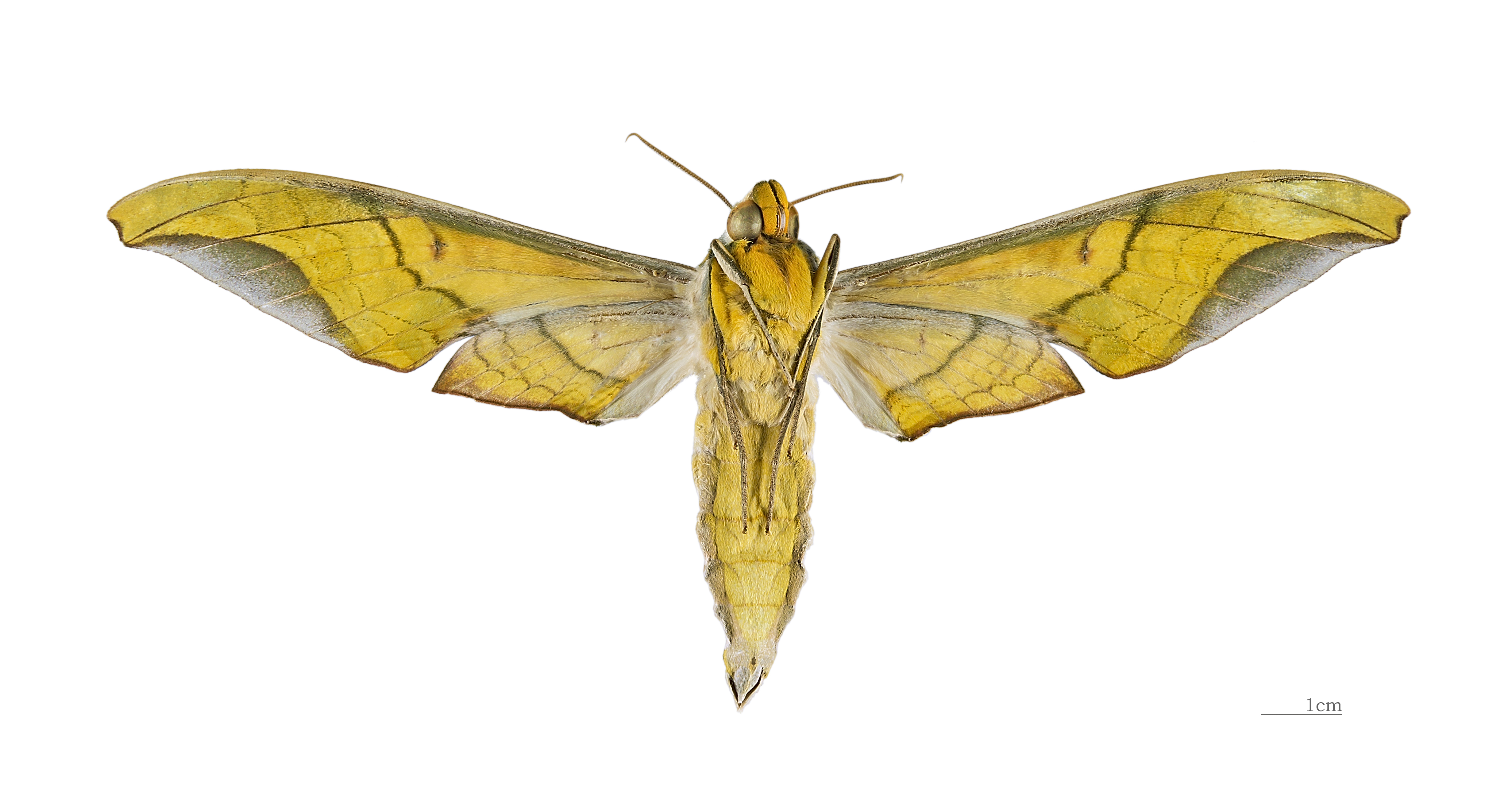 Protambulyx goeldii - △ Ventral side